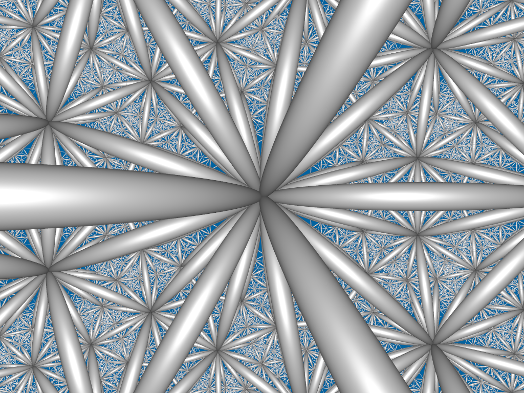 This is the regular {3,3,6} honeycomb in hyperbolic 3-space. The model is cell-centered in the Poincare Ball model, with the viewpoint then placed at the ball origin.